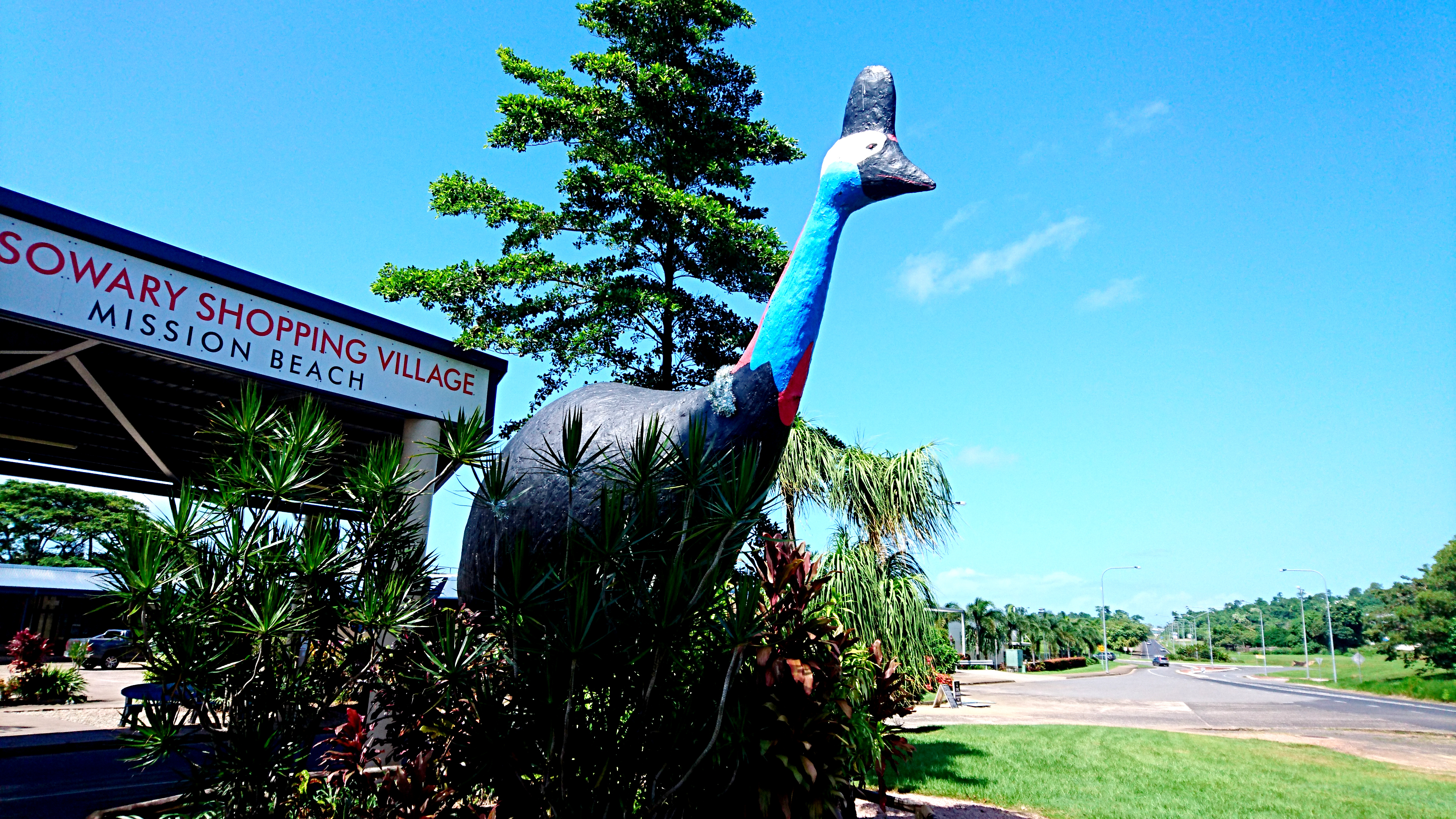 Giant statue of a cassowary located in Wongaling Beach